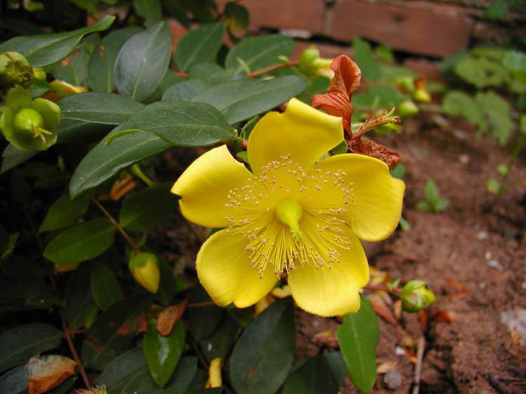 Hypericum â€œHidcoteâ€ hybrid.